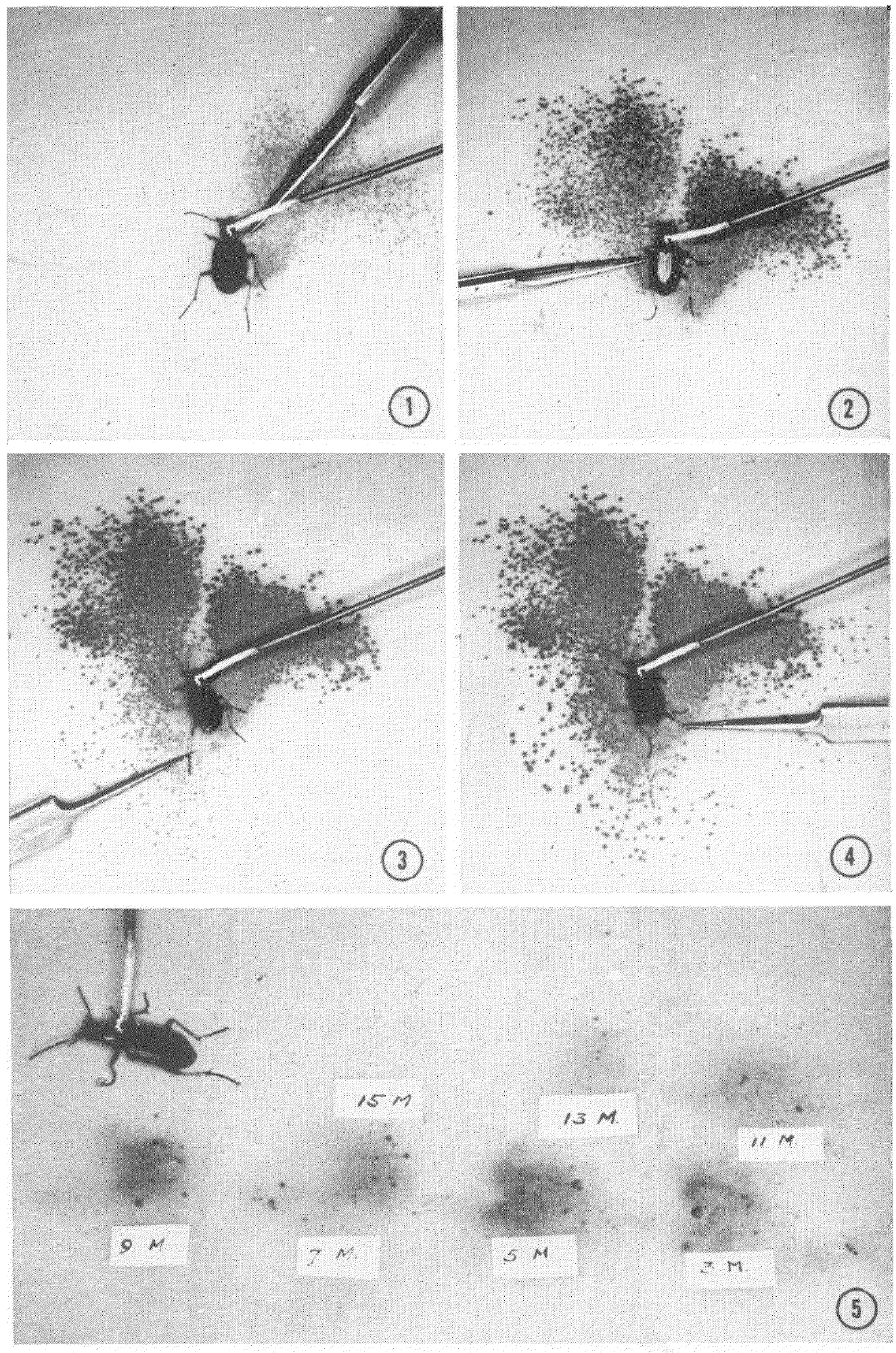 Figs. 1-4. Four consecutive discharges of Chlaenius, elicited by pinching with forceps individual pro- and metathoracic legs as shown. The spray pattern is registered on filter paper impregnated with a chemical indicator (see text, part I). Fig. 5. An individual Chlaenius, after having been caused to discharge, was transferred from place to place on a sheet of indicator paper. As long as residual secretion remained on its body and feet, a conspicuous discolored zone developed around it at each locus (the dark spots within each zone are footprints). Transfer was at two-minute intervals; the times given are from the moment of discharge.